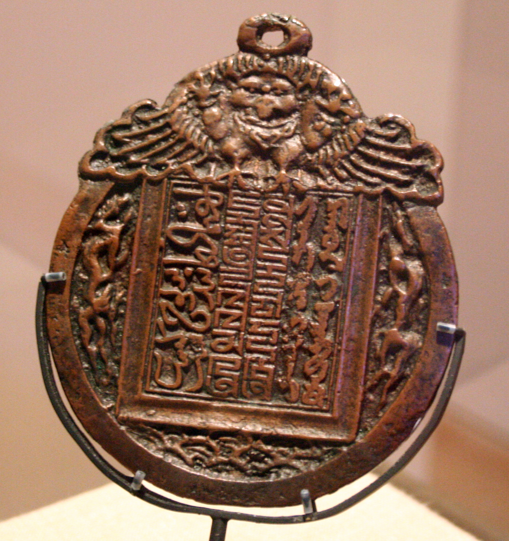 Nightwatchman's pass (paizi) of the Mongol empire. In the middle is a trilingual inscription in Persian (left), Mongolian in Phags-pa script (centre), and Uyghur (right). The Phags-pa Mongolian reads: ꡆꡘ ꡉꡟꡃ ꡢꡢ ꡏꡖꡟ ꡋꡞ ꡛꡦ ꡘꡦꡂ ꡊꡦ ꡁꡟ (jar thung qaq ma·u / ni sė rėg dė khu = jar tuŋɣaɣ maɣu-ni seregdekü) , meaning "Announcement: Beware of evil-doers".